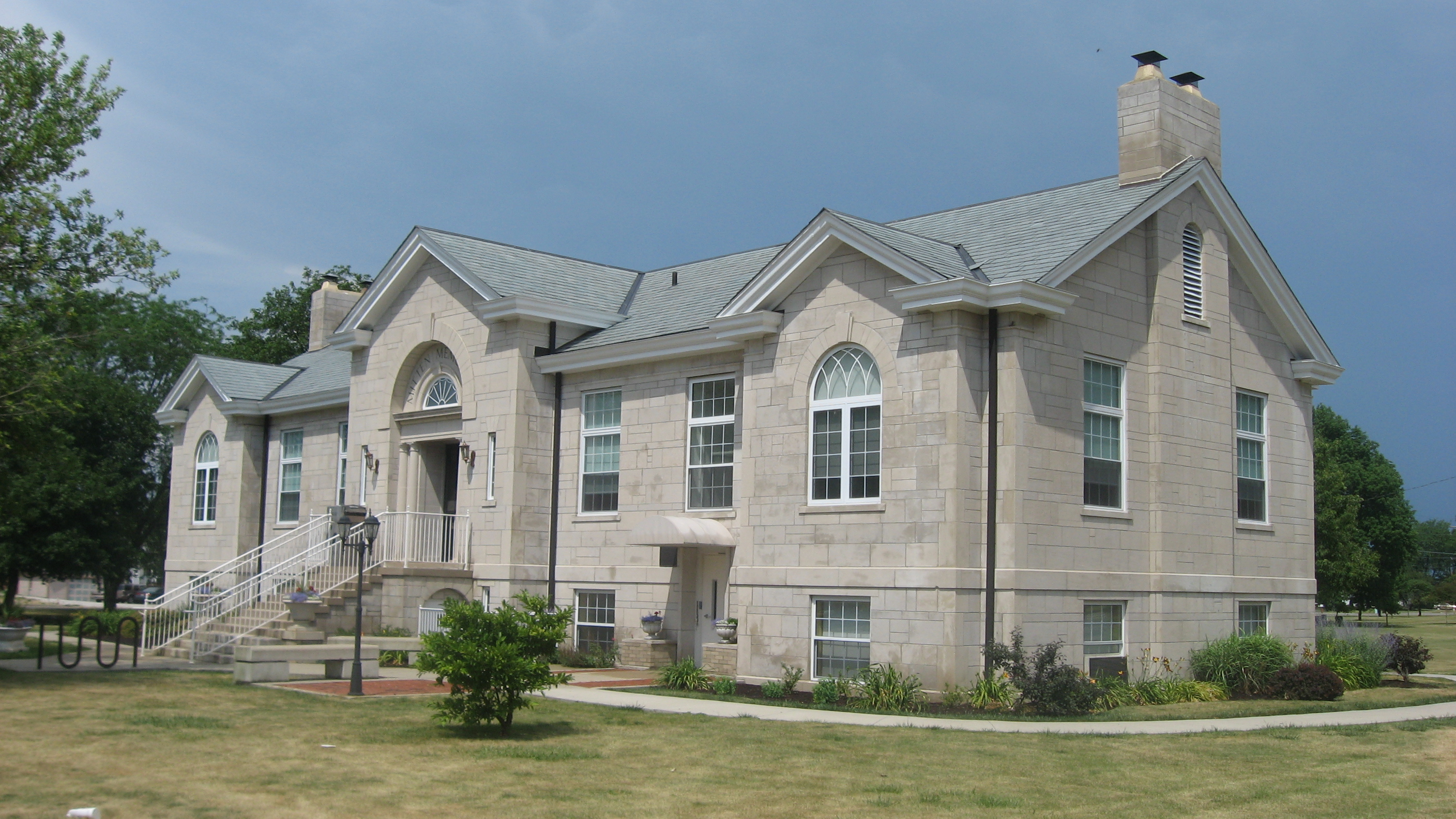 Front and southern end of the Goodland-Grant Township Public Library, located in a park at 111 S. Newton Street in Goodland, Indiana, United States. Built in 1931, it is listed on the National Register of Historic Places.